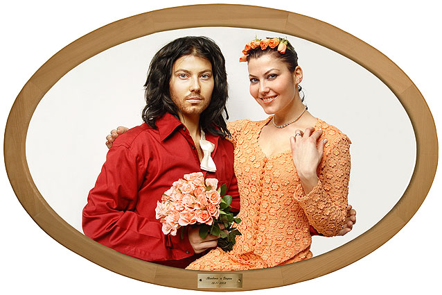 Fotografie Barbory Bálkové; Barbora Bálková´s photographs Personality rights warningAlthough this work is freely licensed or in the public domain, the person(s) shown may have rights that legally restrict certain re-uses unless those depicted consent to such uses. In these cases, a model release or other evidence of consent could protect you from infringement claims.